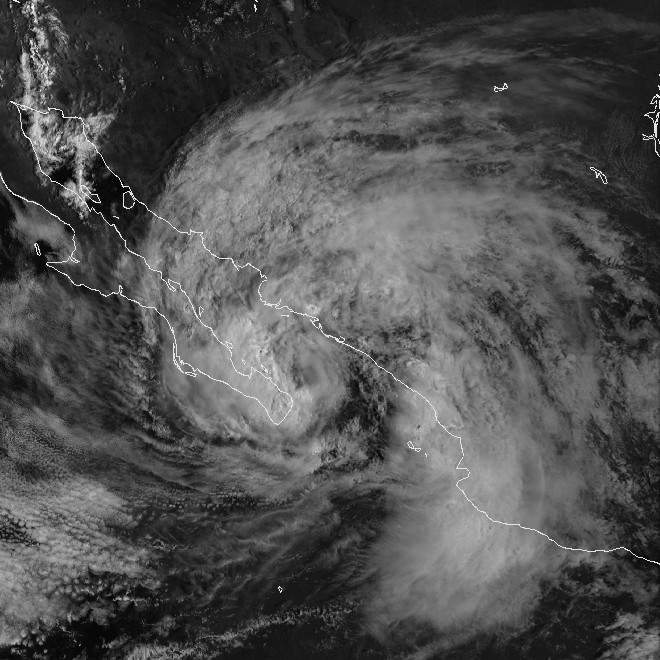 Isis near peak intensity on September 2.